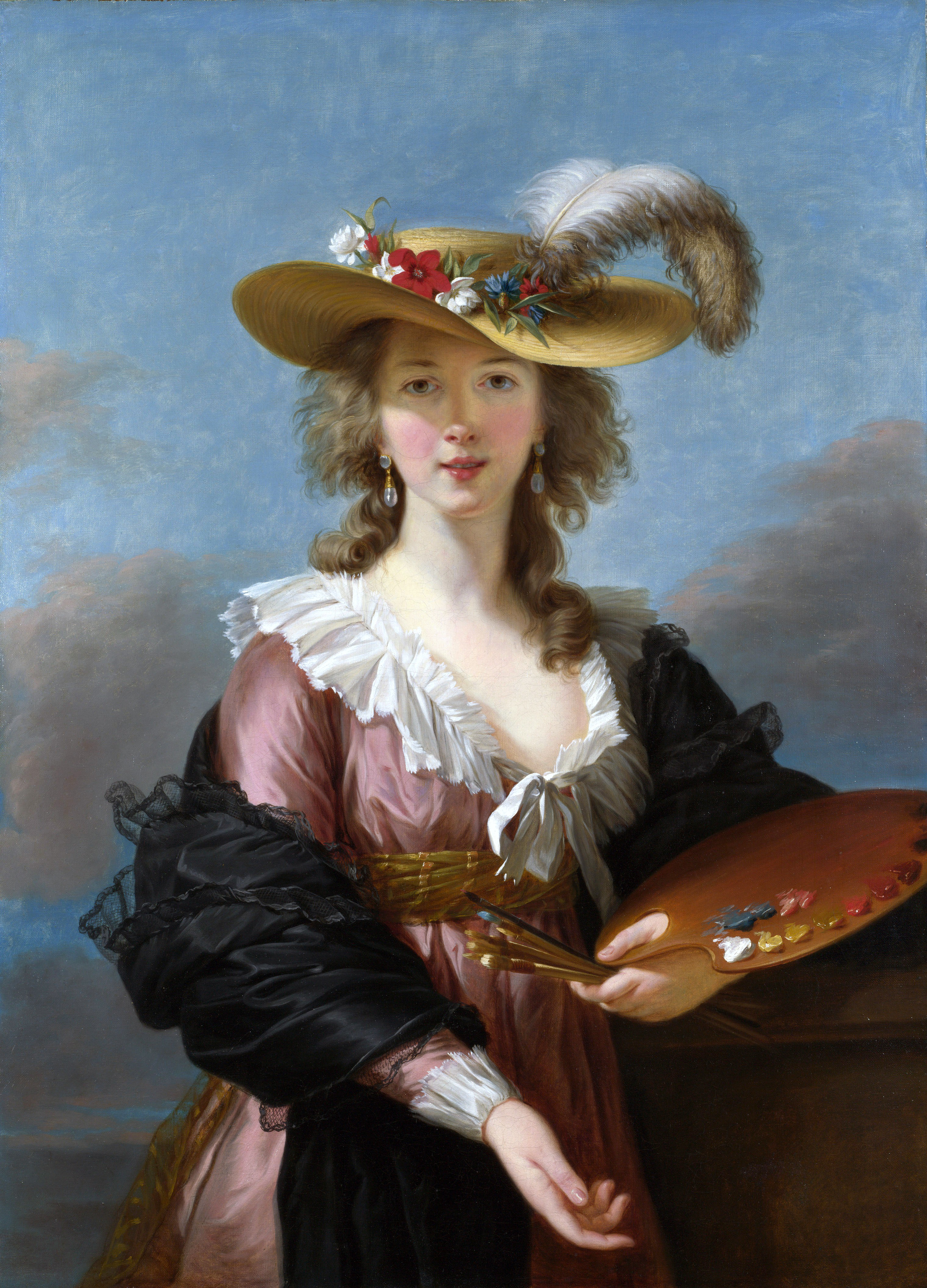 Self-portrait in a Straw Hat